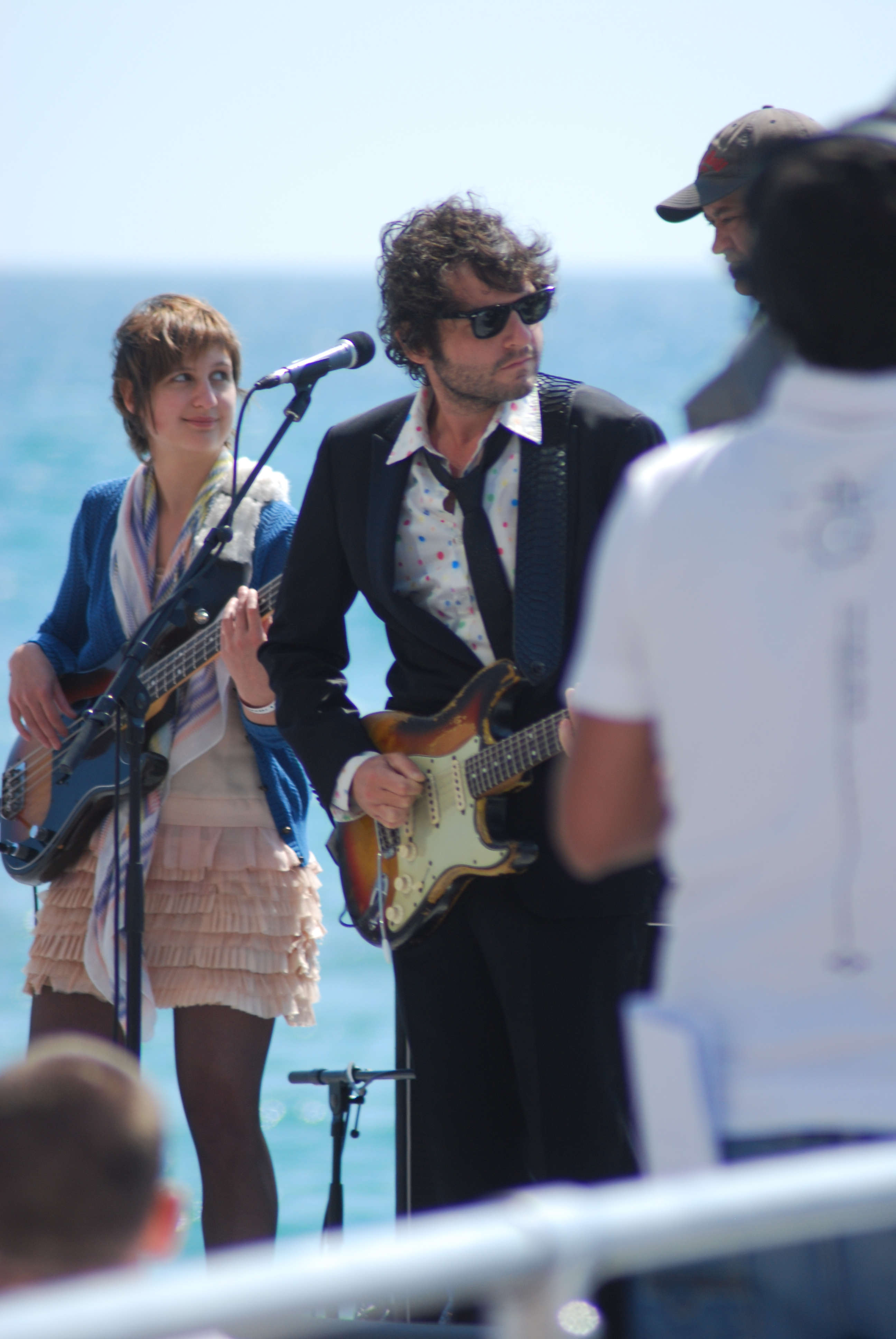 Matthieu Chedid at the Cannes Film Festival in 2010.